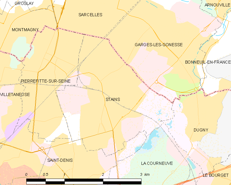 Map of French municipality Stains